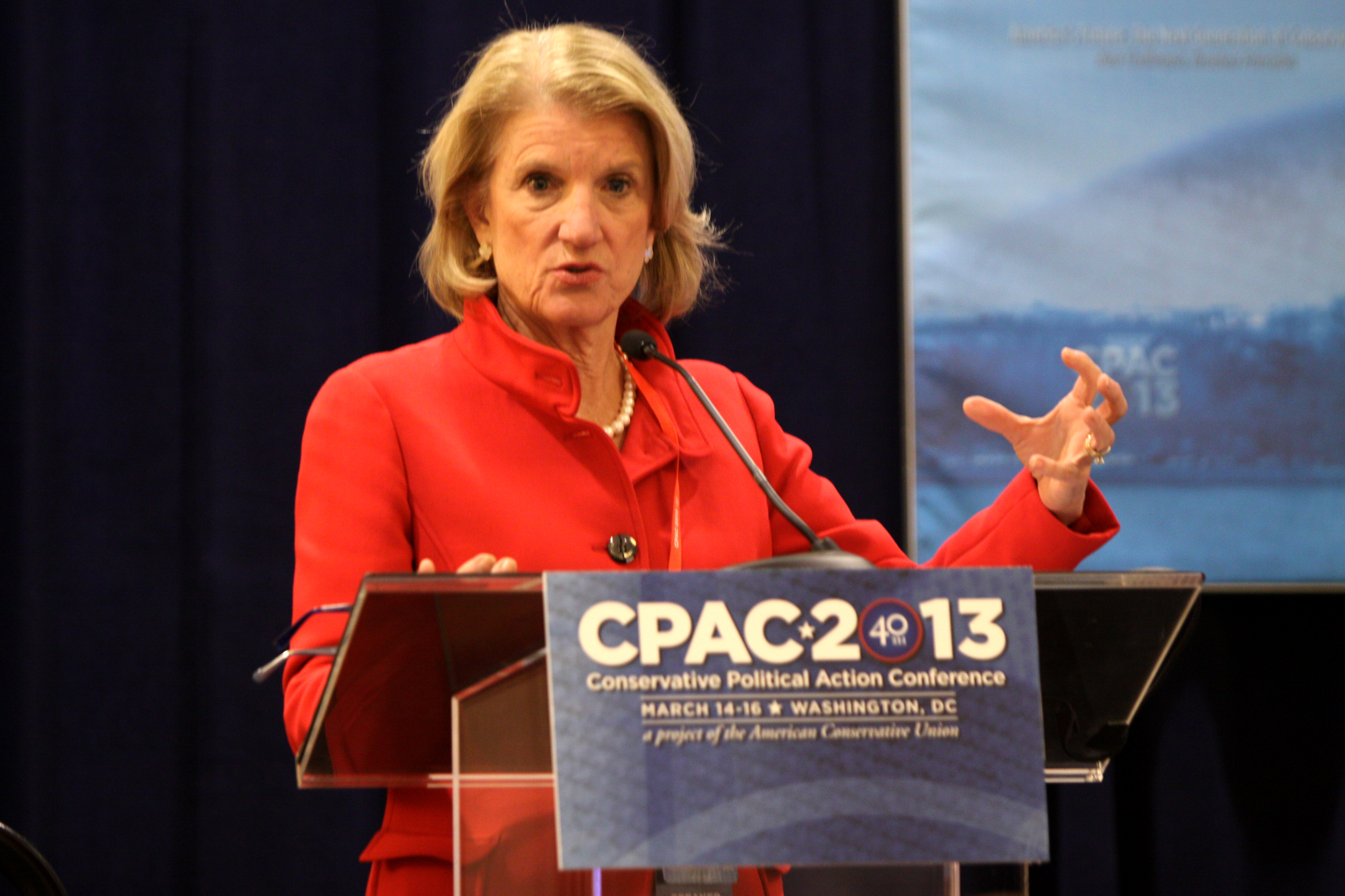 Congressperson Shelley Moore Capito of West Virginia speaking at the 2013 Conservative Political Action Conference (CPAC) in National Harbor, Maryland.